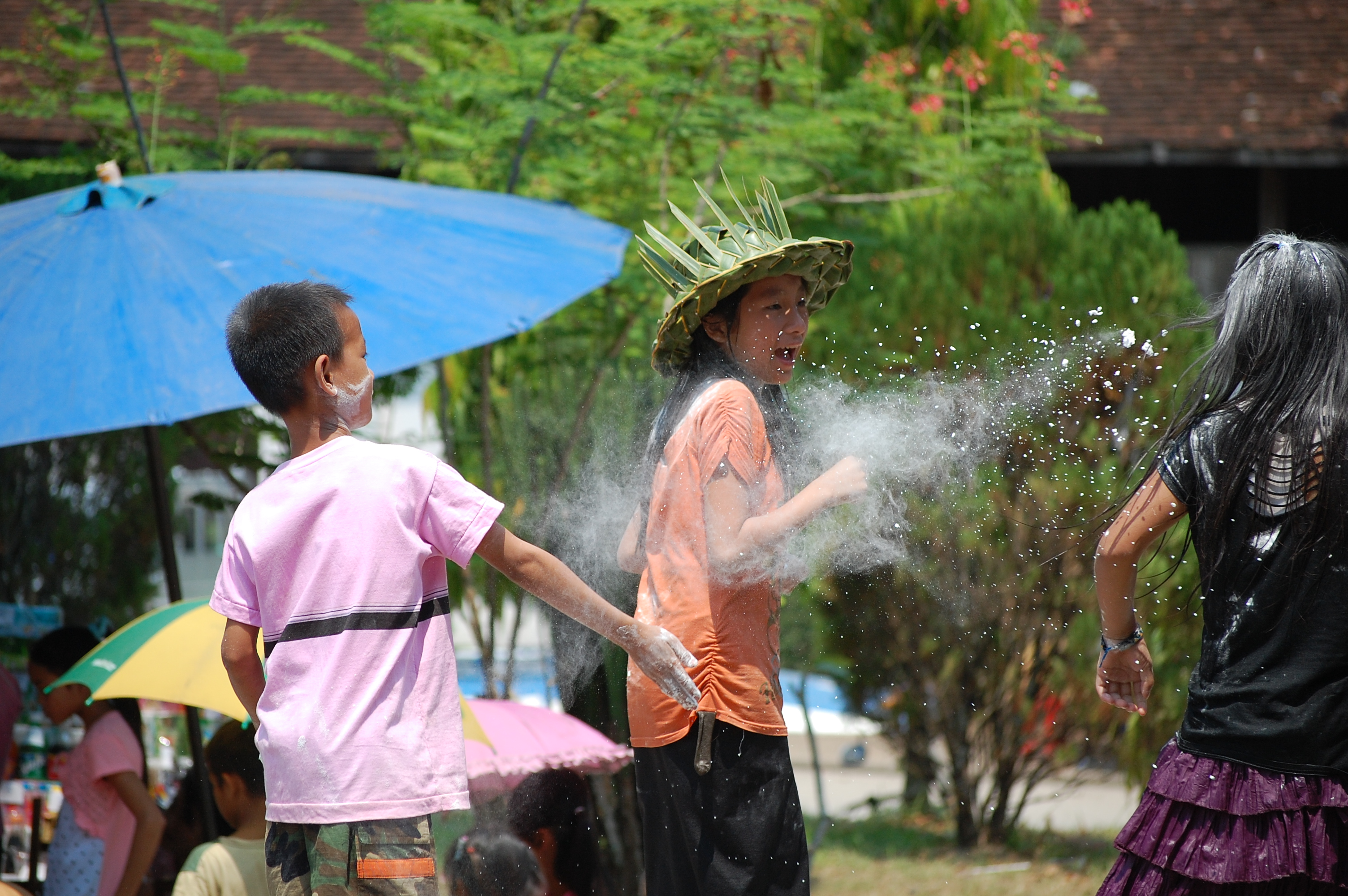 At a temple down the road from my guesthouse, kids were just constantly assaulting each other with flour. Anyone not yet covered was an ideal target.